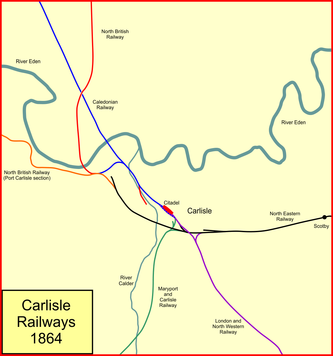 Railways of Carlisle, England, in 1864